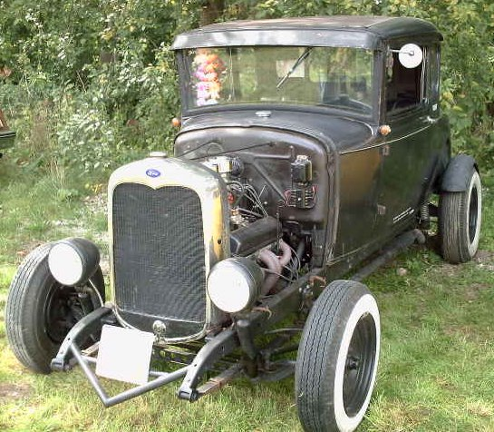 1930 Ford Model A Hot Rod Rat Rod